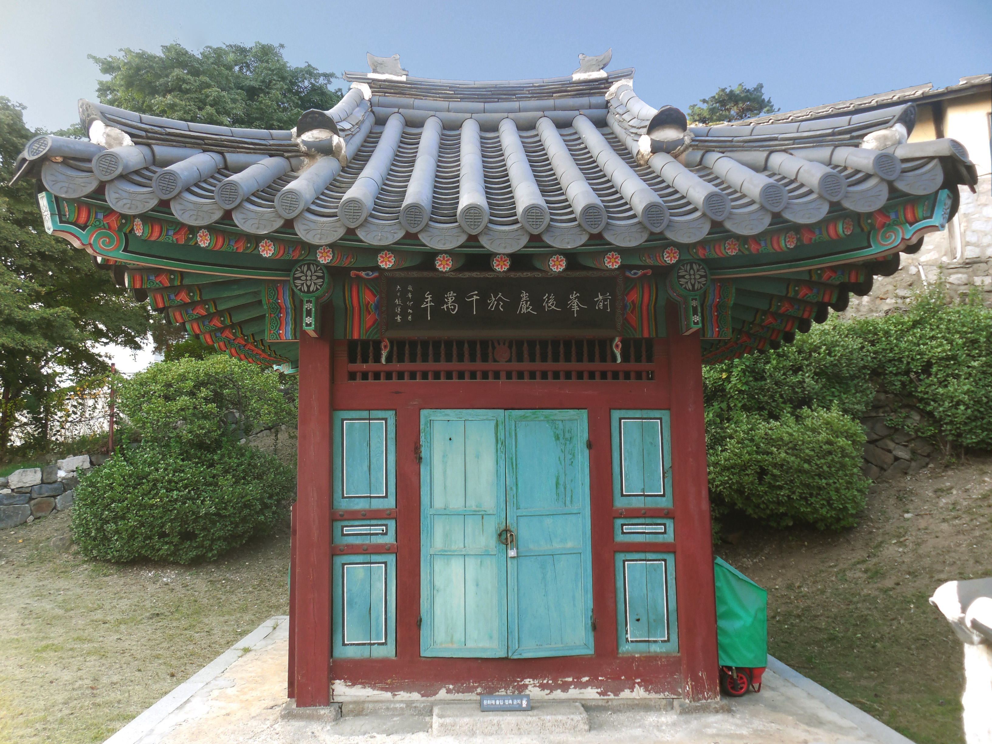 Site of Jeongeobwon.